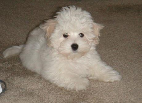 A Coton de Tulear puppy at 12 weeks.